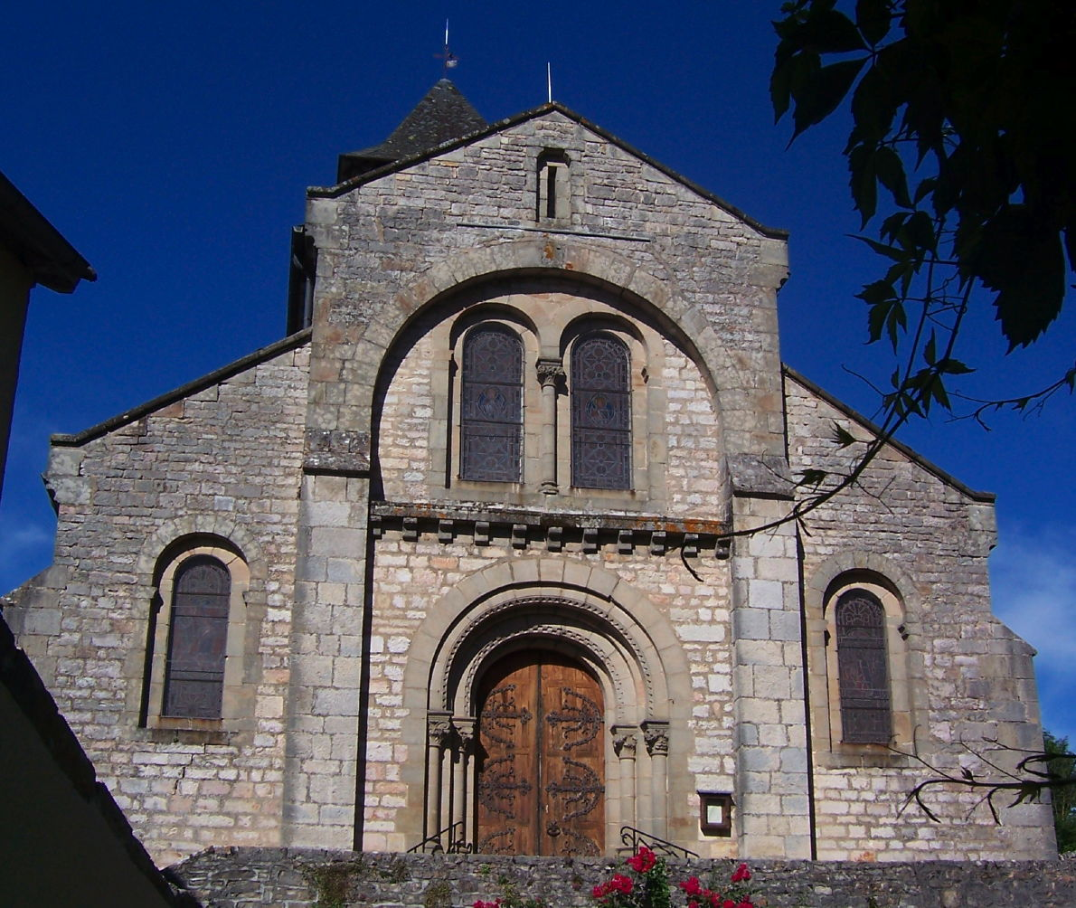 Church of Livernon (Lot - France).